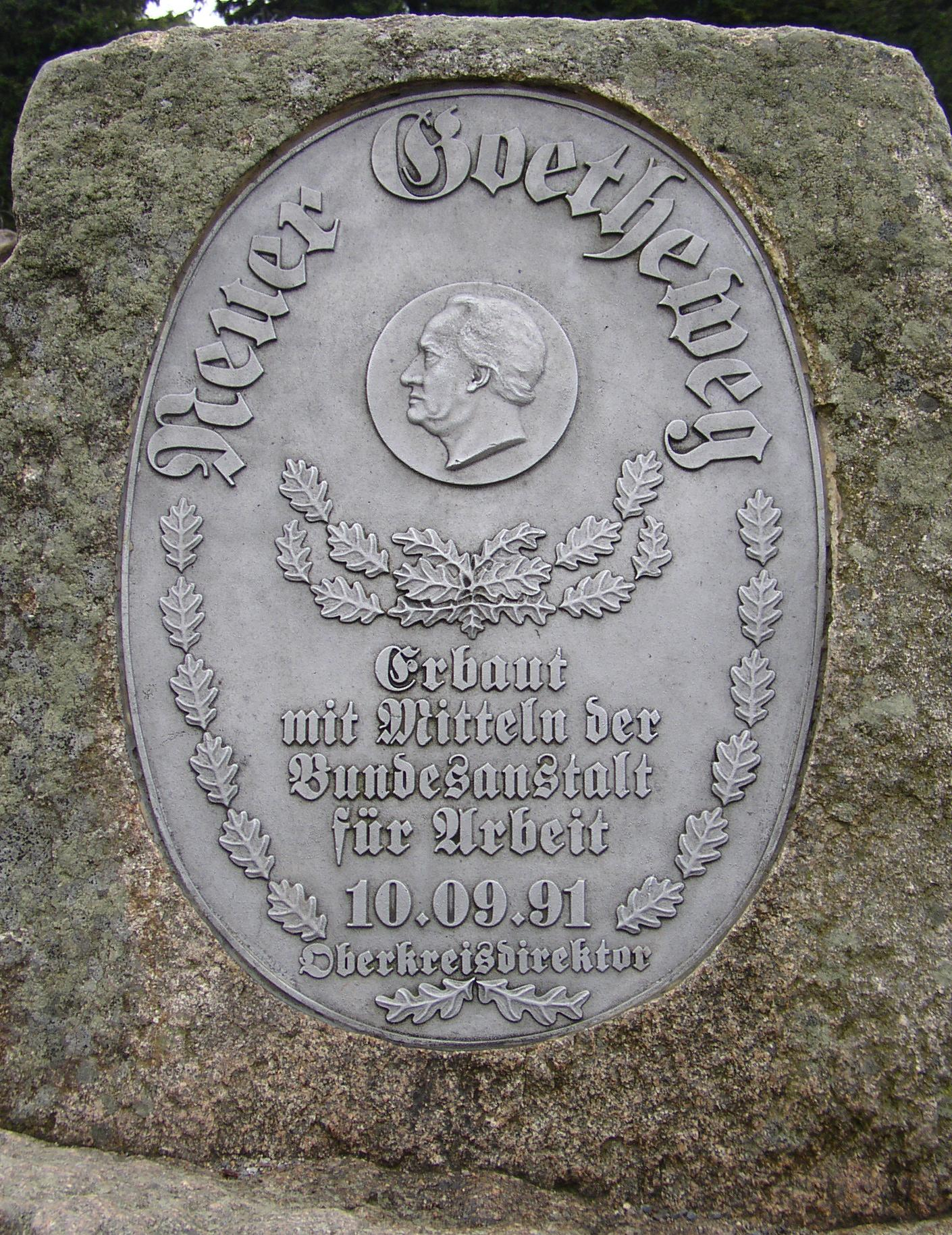 Hiking trail „Neuer Goetheweg“ in the Harz National Park in Saxony-Anhalt, Germany